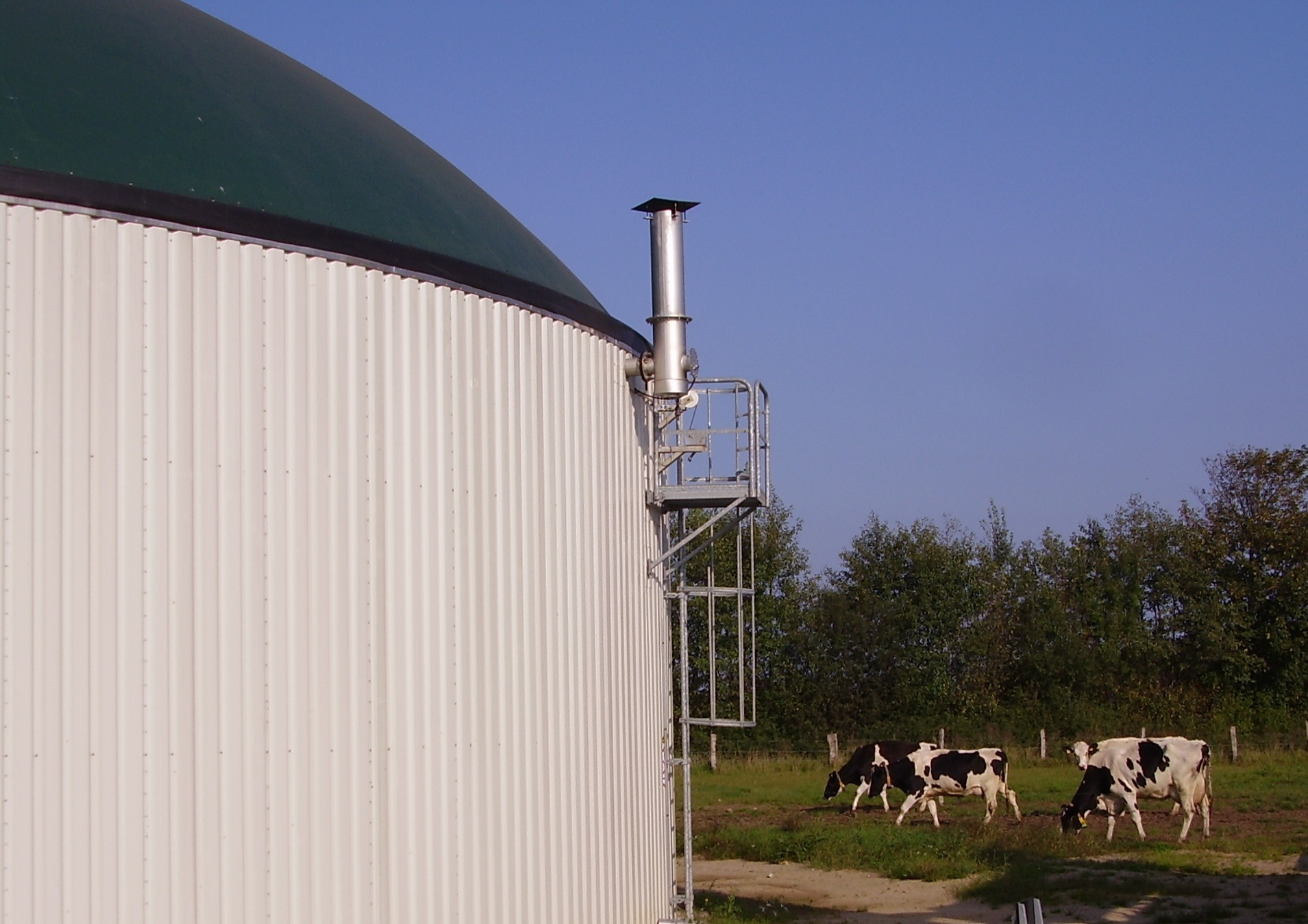 Haase maize anaerobic digester Author: Alex Marshall, Clarke Energy Ltd, October 2007.